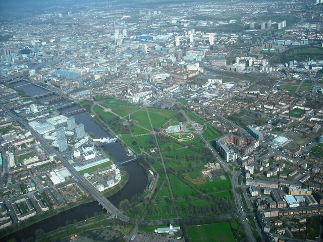 Glasgow Aerial